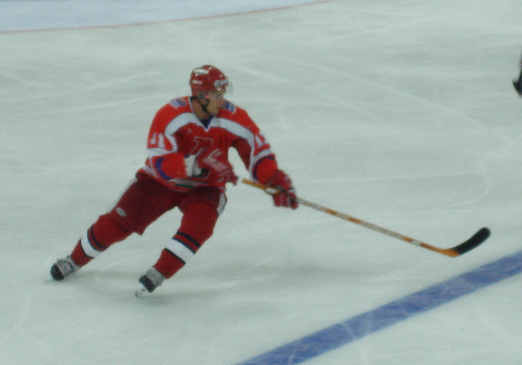 Alexander Galimov of Lokomotiv Yaroslavl against the Lakers